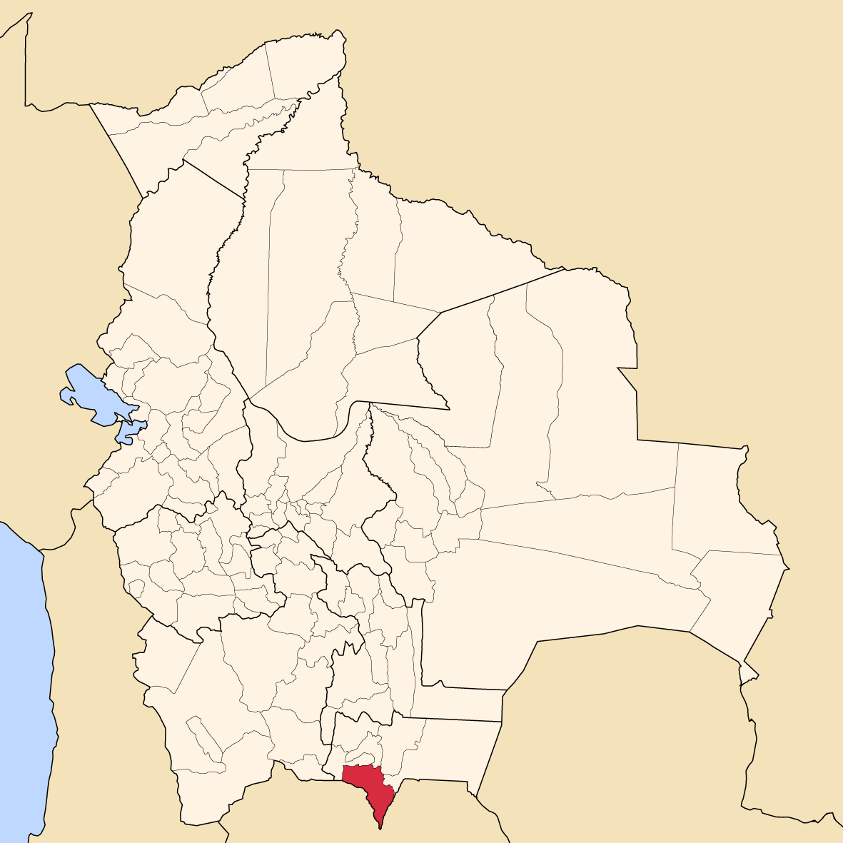 Map of Bolivia showing Aniceto Arce province, Tarija